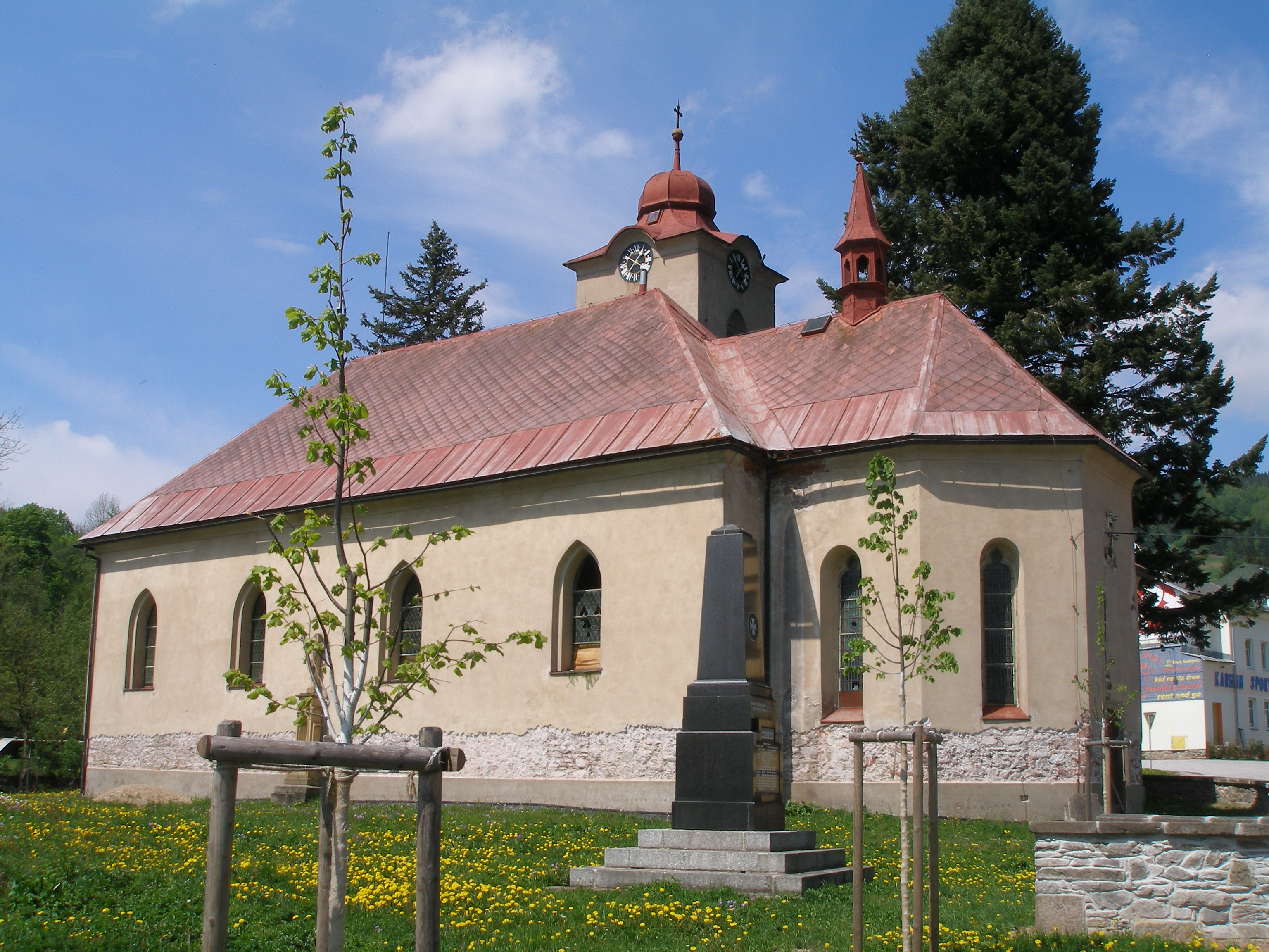 Černý Důl (Trutnov District) - the Southern view of the church